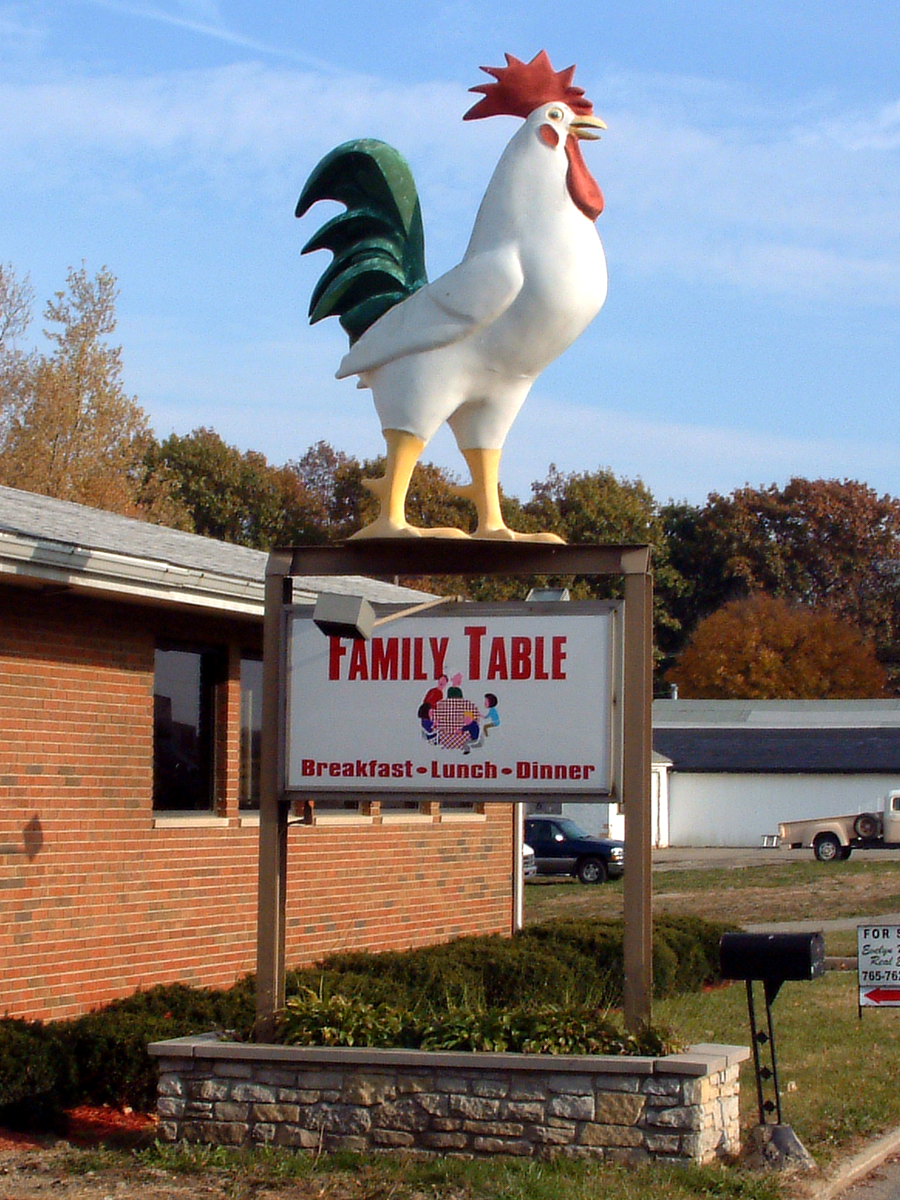 A statue of a rooster stands atop a sign for a restaurant along East Main Street (Highway 28) in Attica, Indiana.